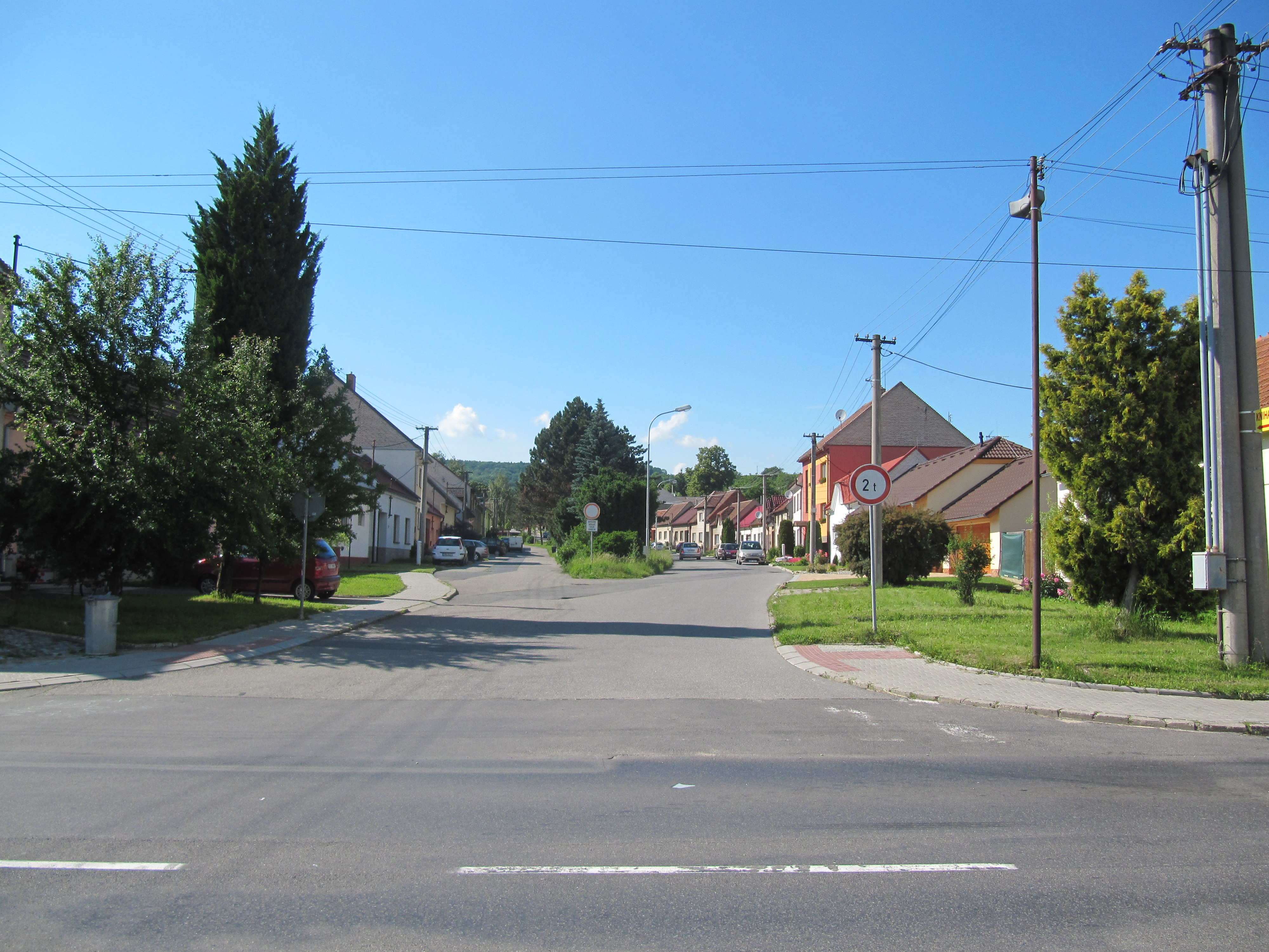 Uherský Brod, Uherské Hradiště District, Czech Republic., part Těšov. Common.